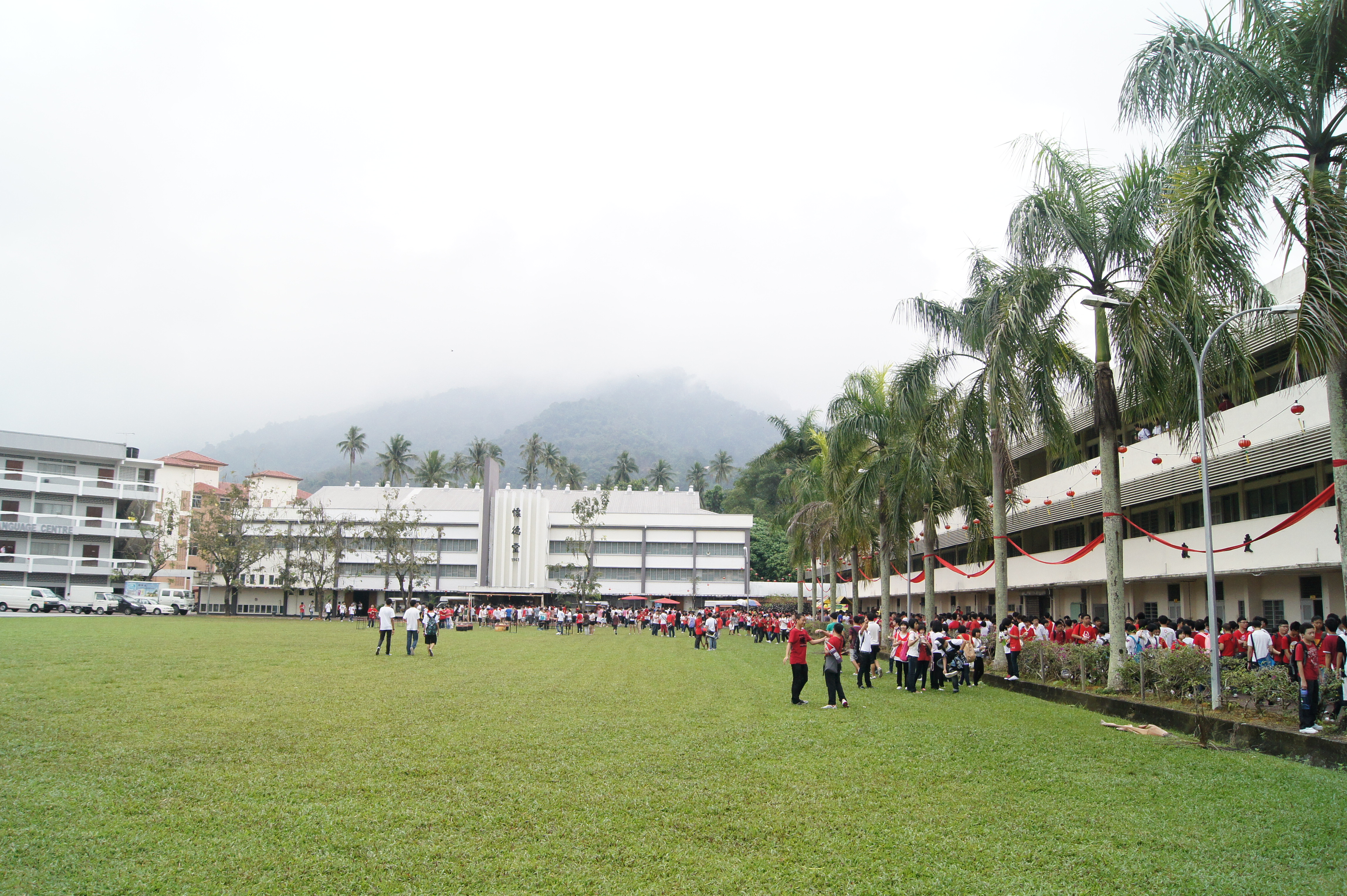 Its a school